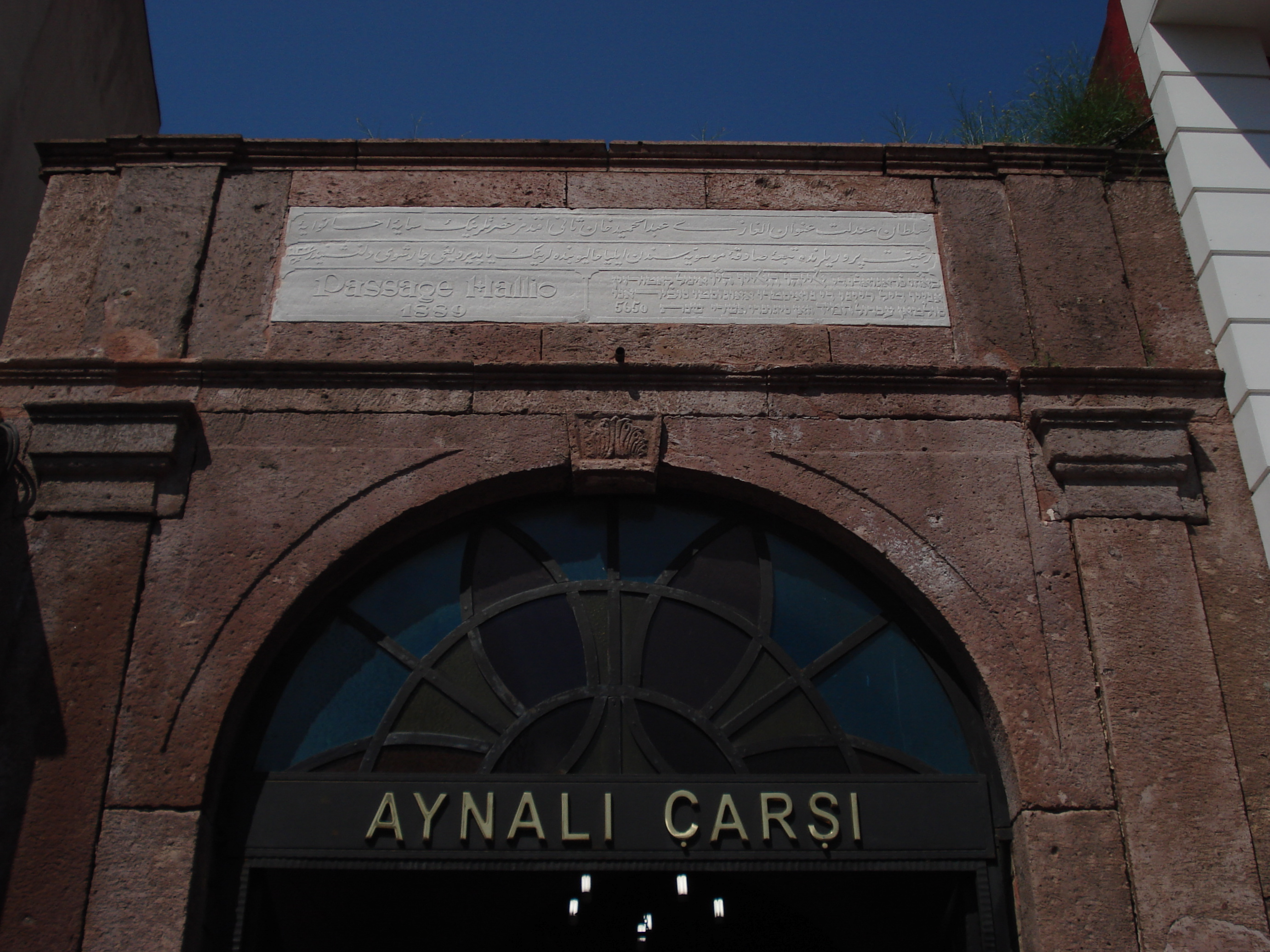 Mirror Bazaar